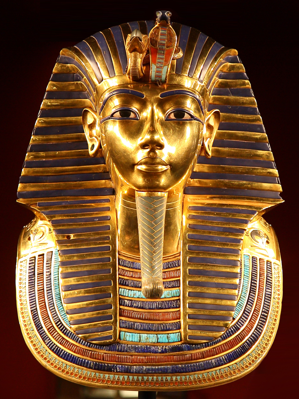 Replica of the golden mask of Tutankhamun in the Egyptian Museum